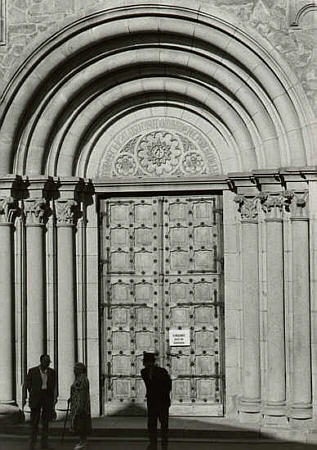 Tittling, eastern portal of St Vitus Parish Church.